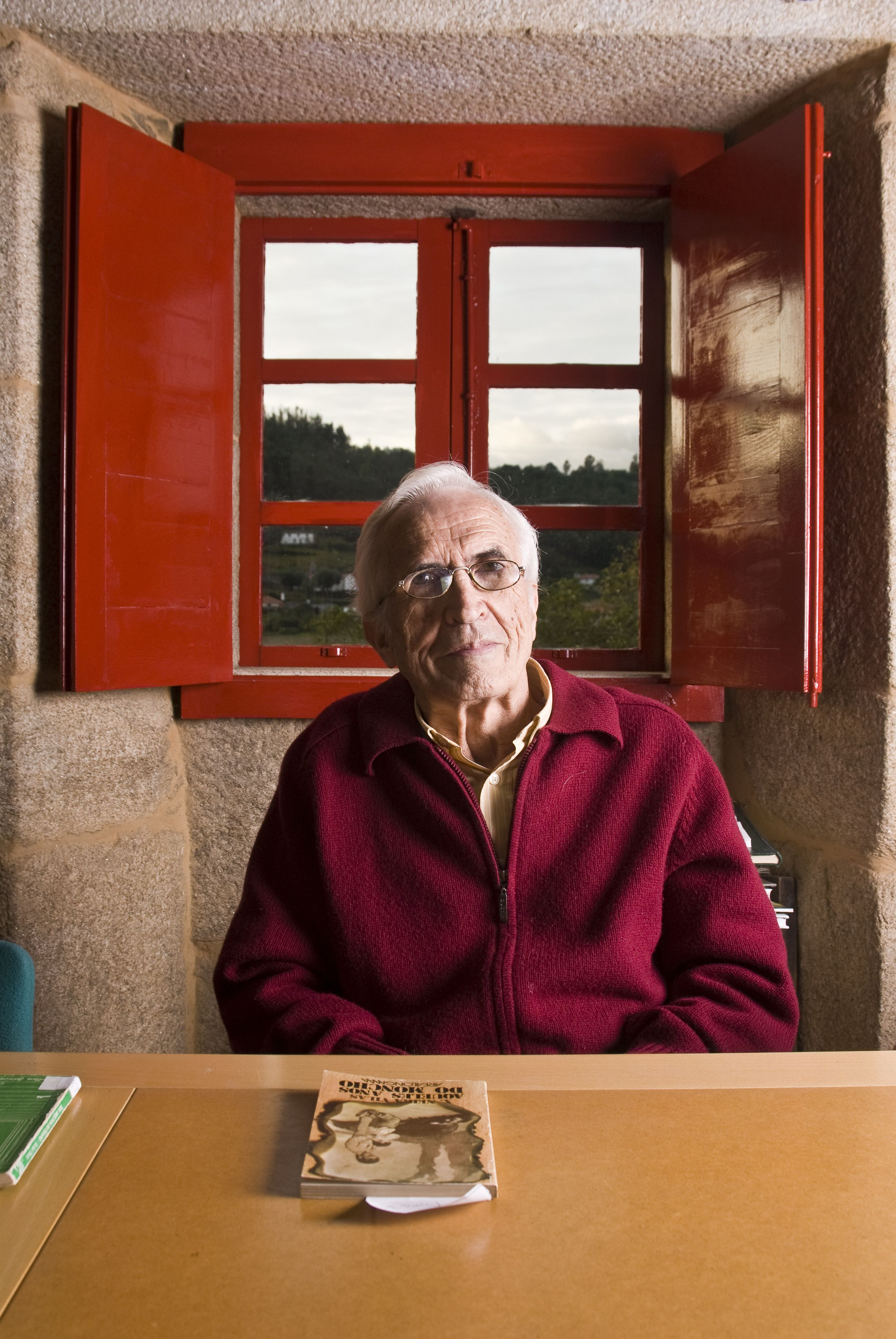 Photograph of Xosé Neira Vilas